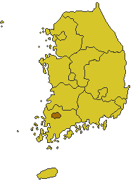 Location of Gwangju Metropolitan City, South Korea.